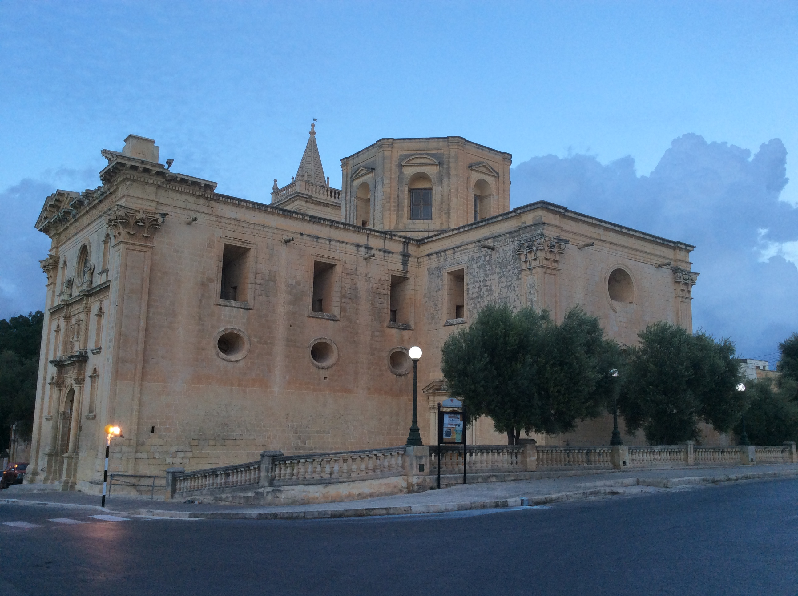 St Mary's Parish Church This media is about Maltese cultural property with inventory number 00293.